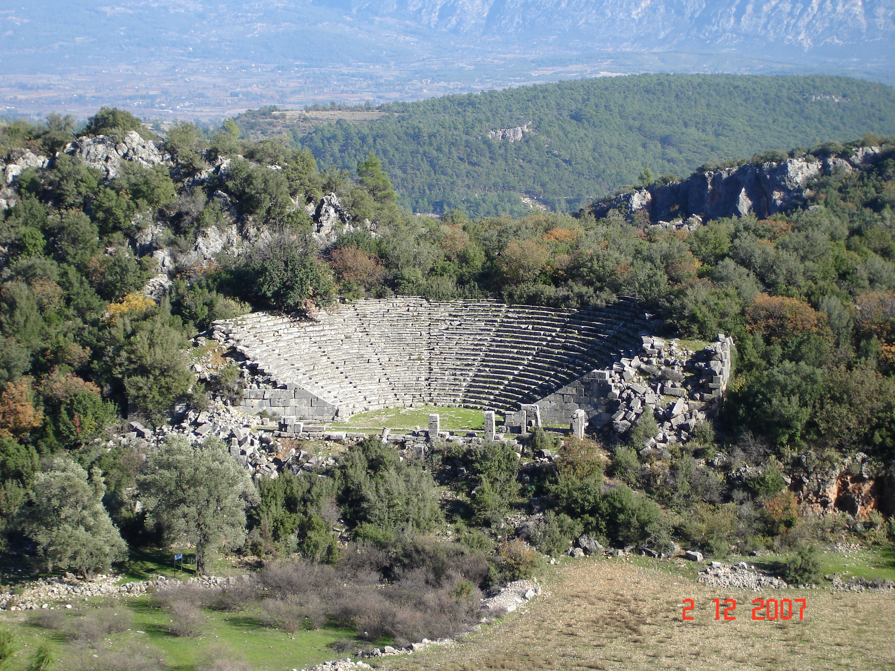 Pinara Lycian Amphitheatre